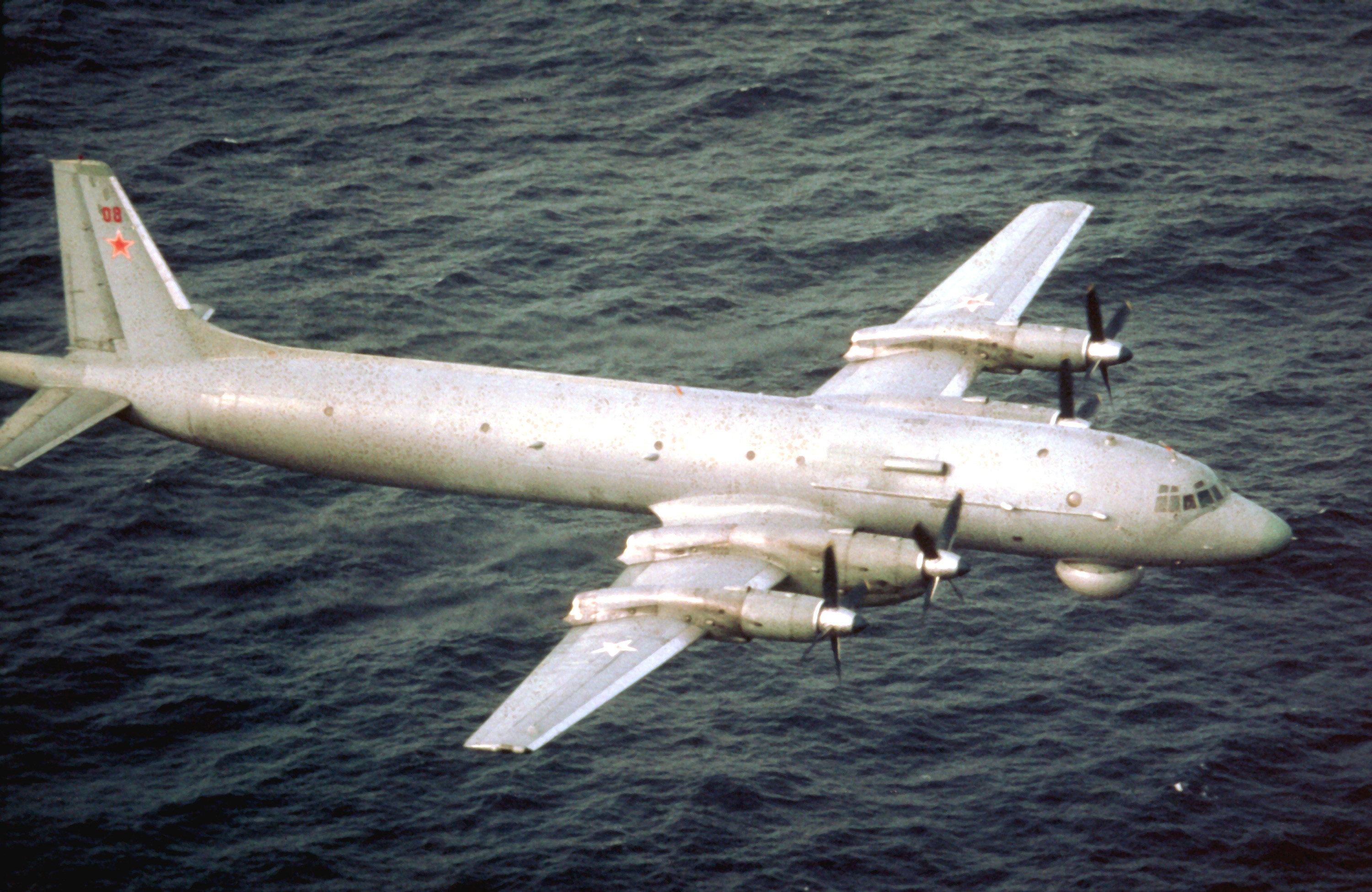 A Soviet Ilyushin Il-38 (NATO reporting name "May") in flight in 1986.